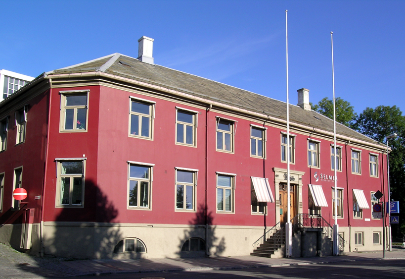 Kjøpmannsgata 52, Trondheim. Built 1841. Log house construction with brick facing.